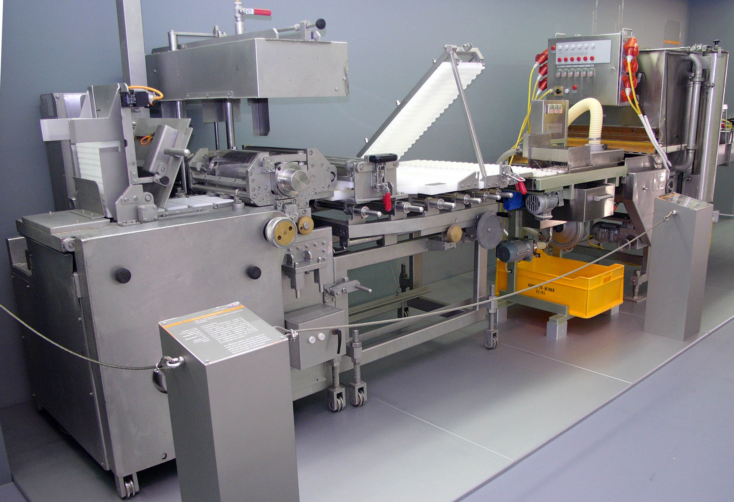 Processing line for fish fingers from the 1980/90s